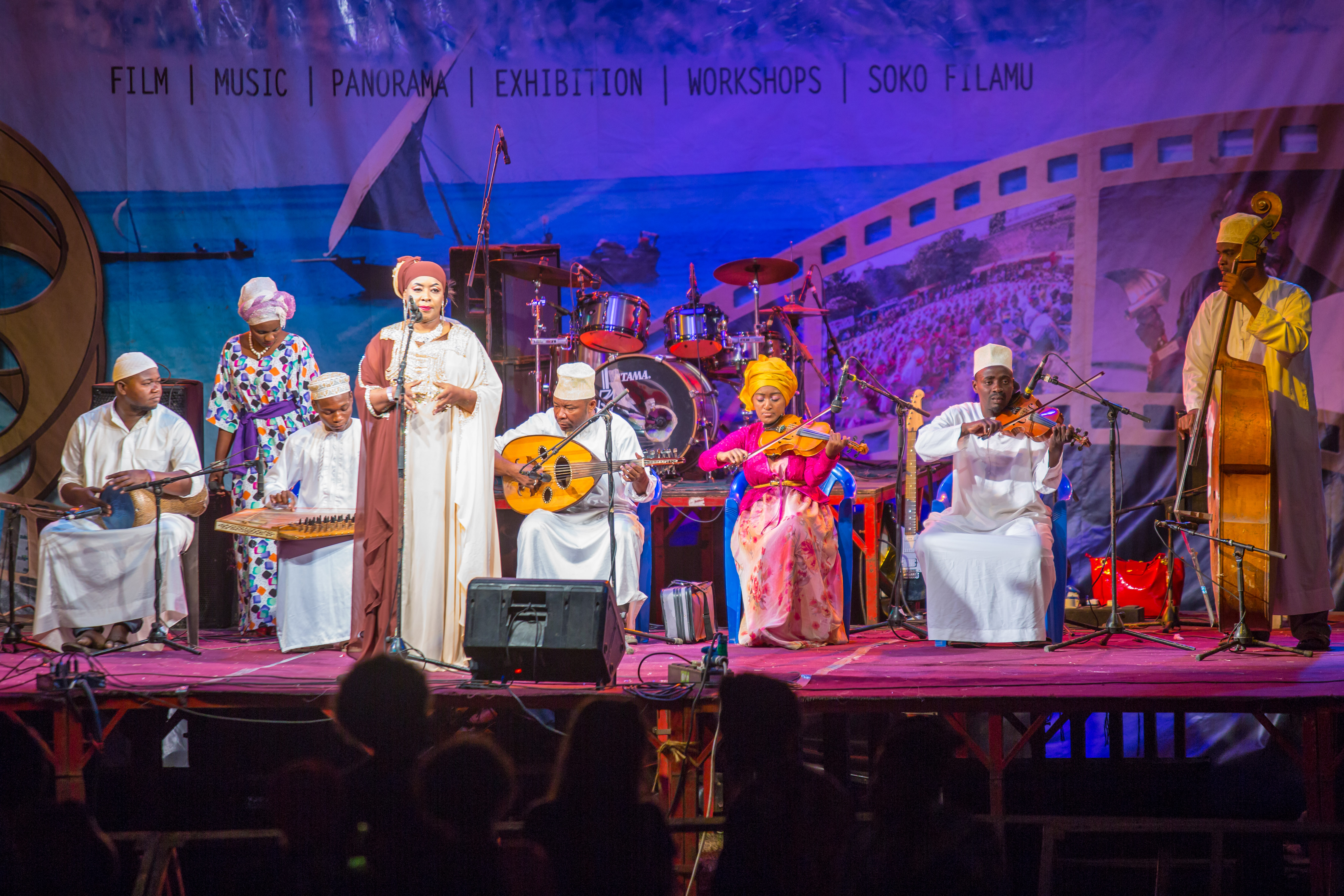 This is an image from Tanzania